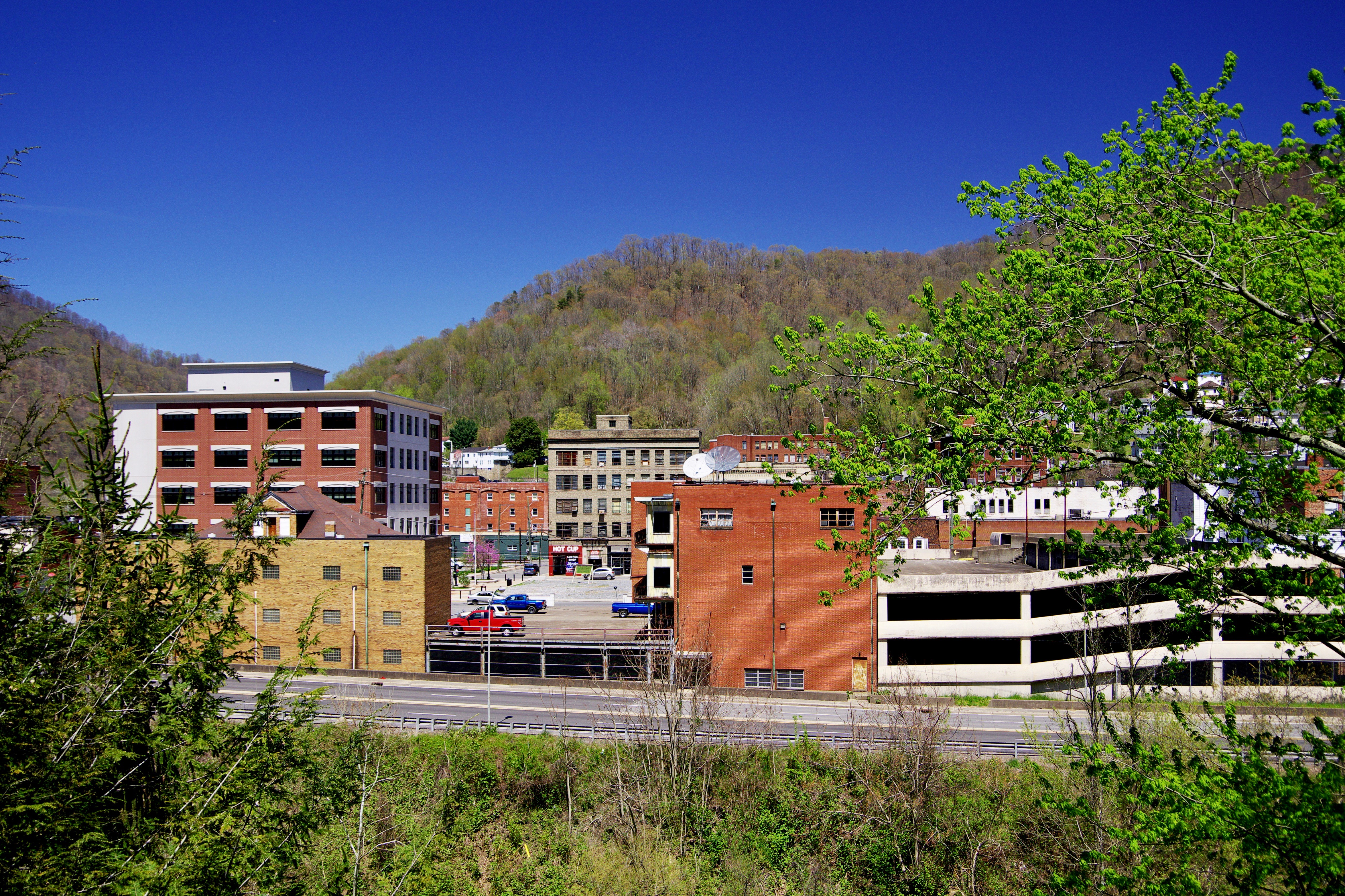 Downtown Logan, West Virginia, United States, viewed from the Logan Regional Medical Center parking lot.